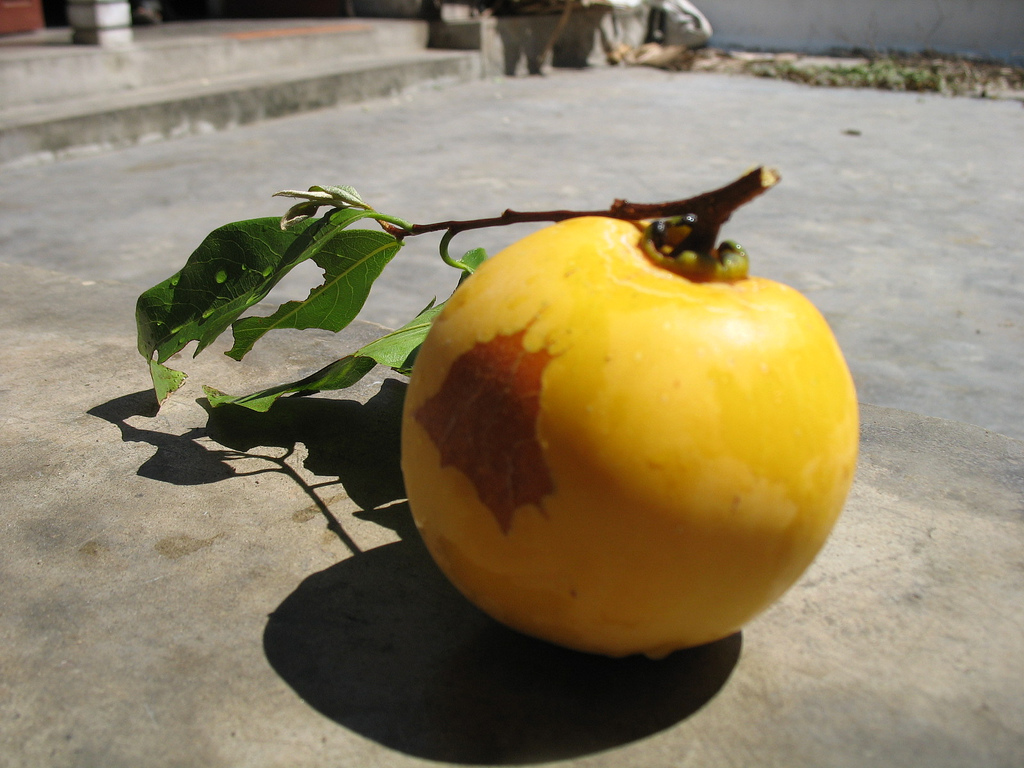 A ripe fruit of Diospyros decandra.